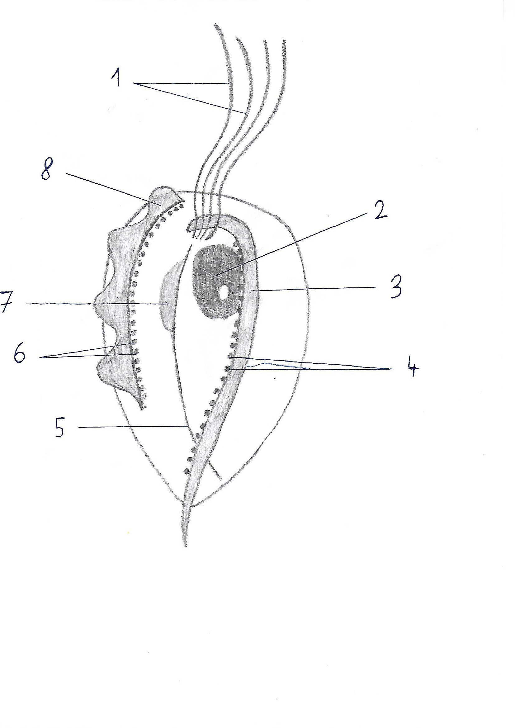 Trichomonas gallinae morphology. 1- Anterior flagella 2- Nucleus 3- Axostyle 4- Hydrogenosomes along axostyle 5- Parabasal fibril 6- Paracostal hydrogenosomes 7- Parabasal body 8- Undulating membrane and costa